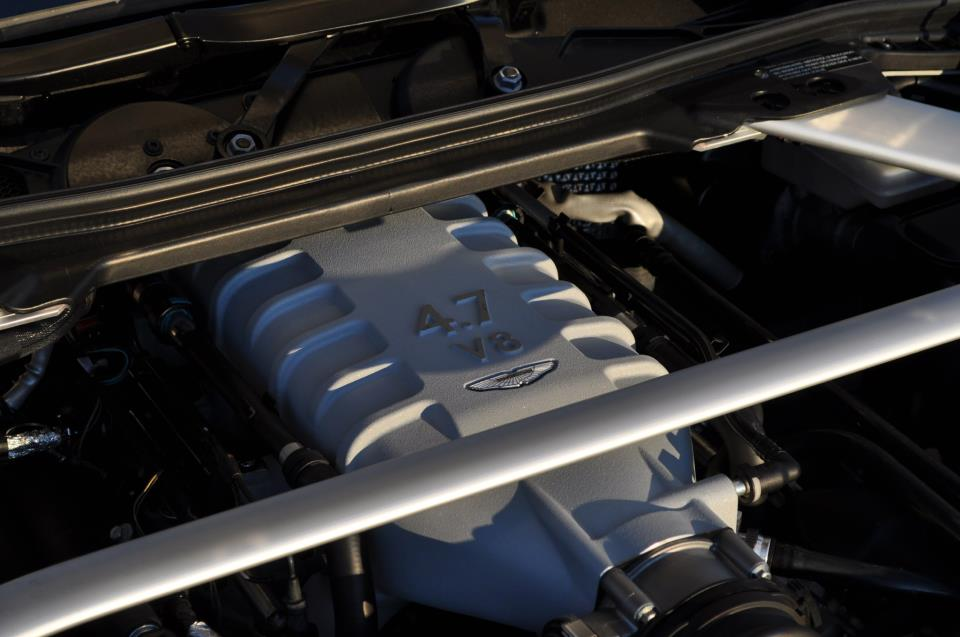 Aston Martin 4.7 litre V8 Engine in a 2012 Vantage Roadster